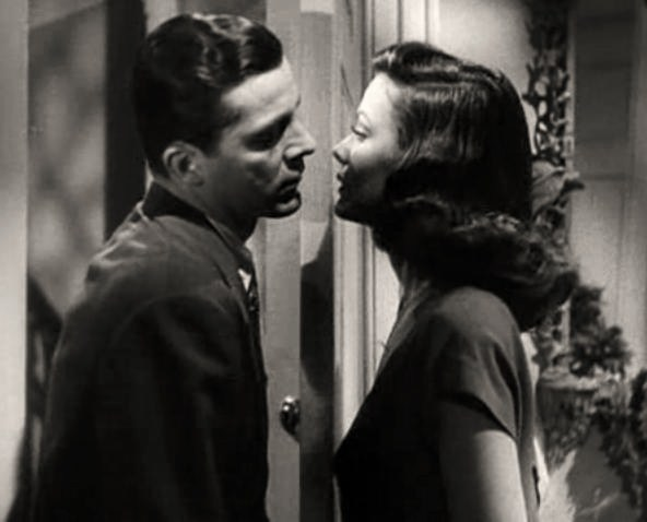 Dana Andrews and Gene Tierney in Laura (1944) - trailer (cropped screenshot)